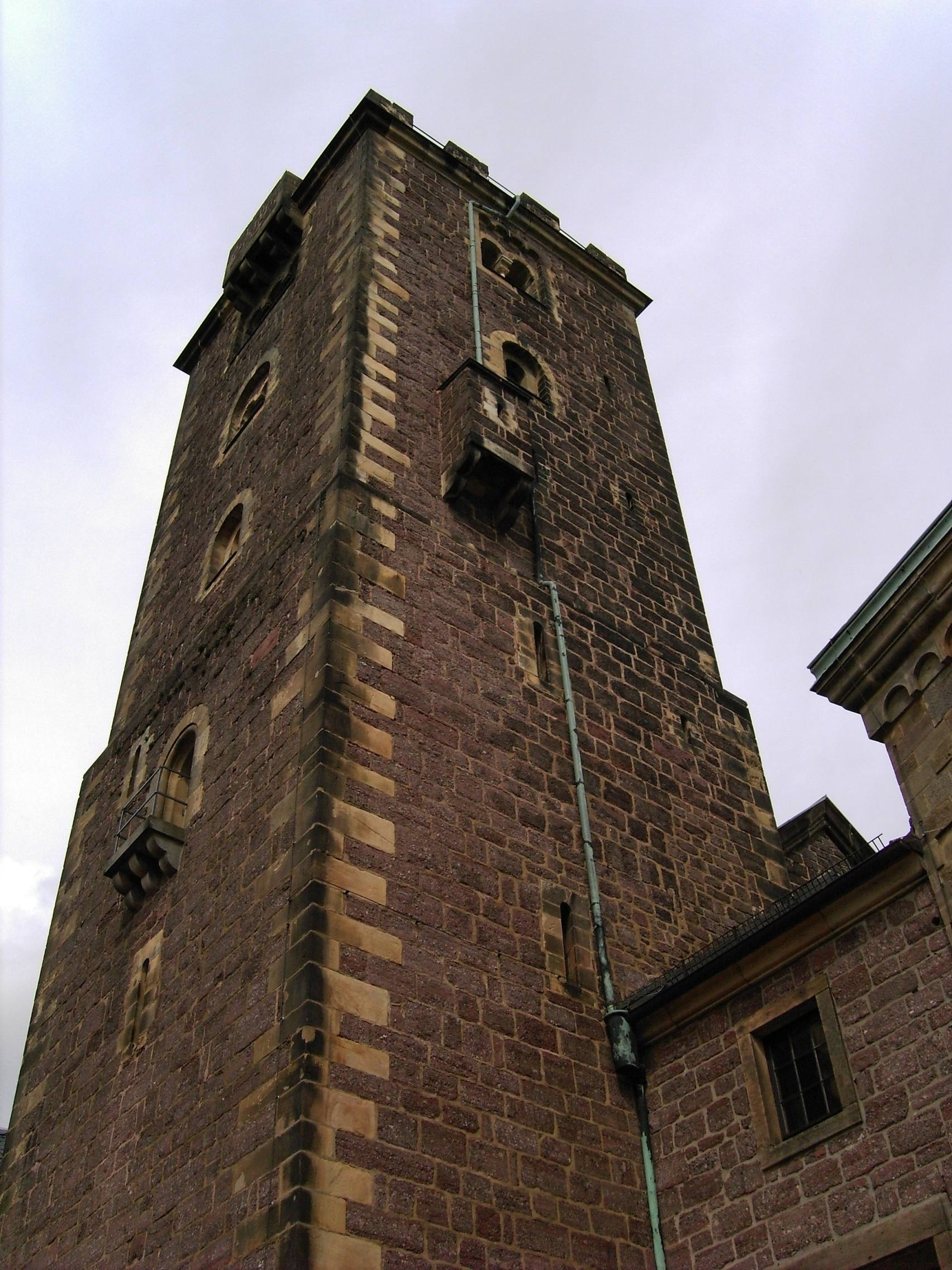 Wartburg, Bergfried.